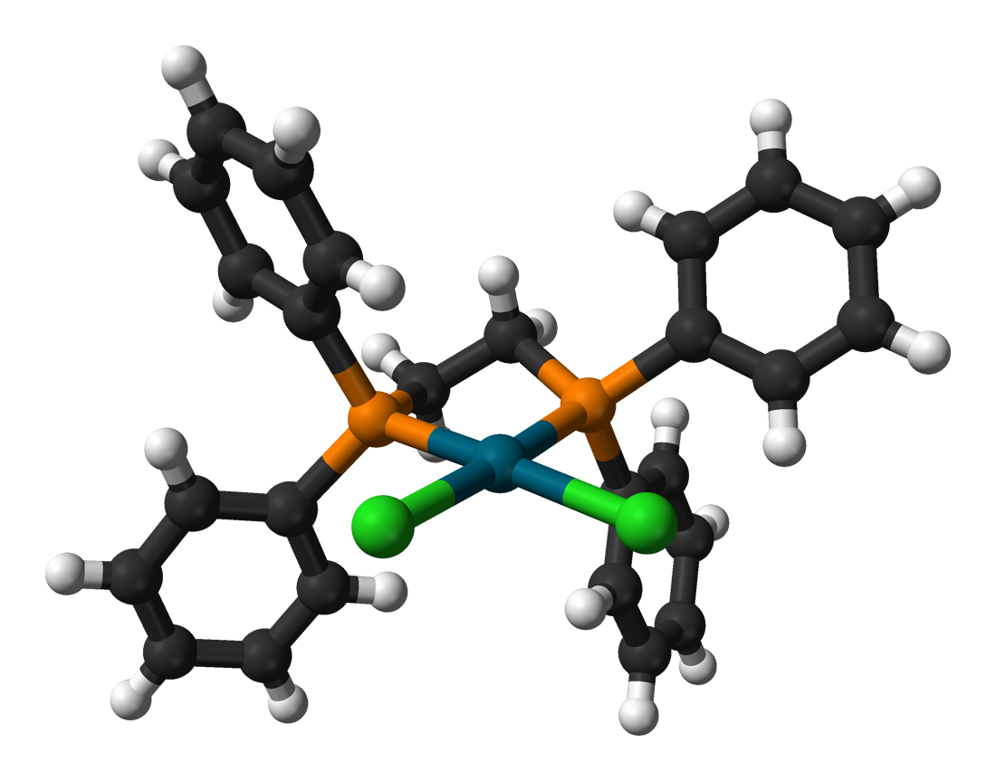 Ball-and-stick model of the [1,2-bis(diphenylphosphino)ethane-P,P′]dichloropalladium(II) molecule, [PdCl2(dppe)]. X-ray crystallographic data from A. S. Batsanov, J. A. K. Howard, G. S. Robertson and M. Kilner (July 2001). "[1,2-Bis(diphenylphosphino)ethane-P,P′]dichloropalladium(II) tris(deuterochloroform) solvate". Acta Cryst. 'E57' (7): m301-m304. Image generated in Accelrys DS Visualizer.